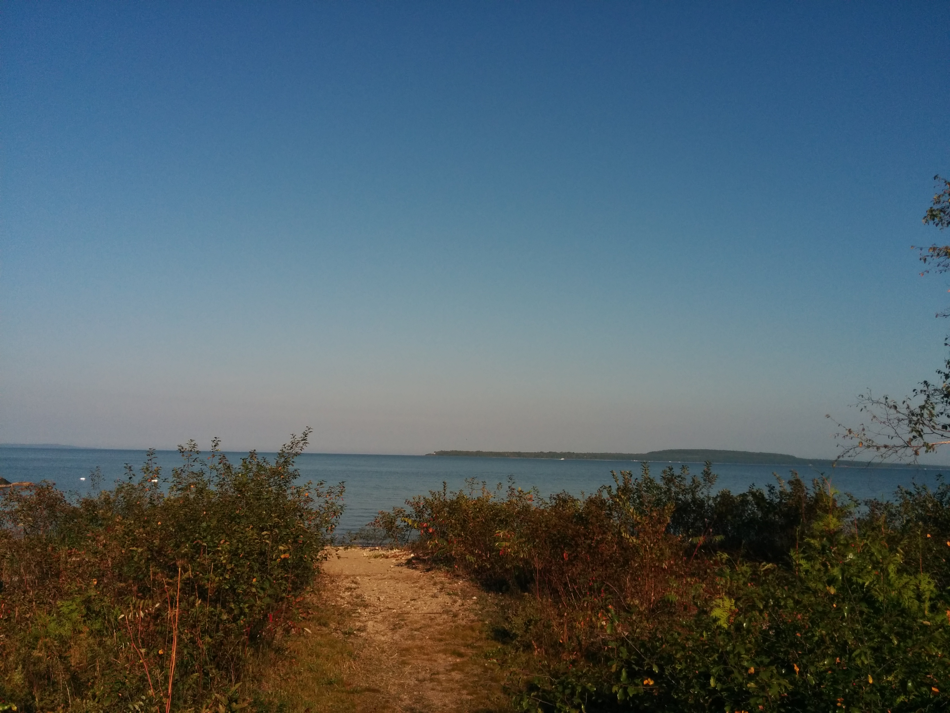 Taken near Kettles' Beach, Ontario